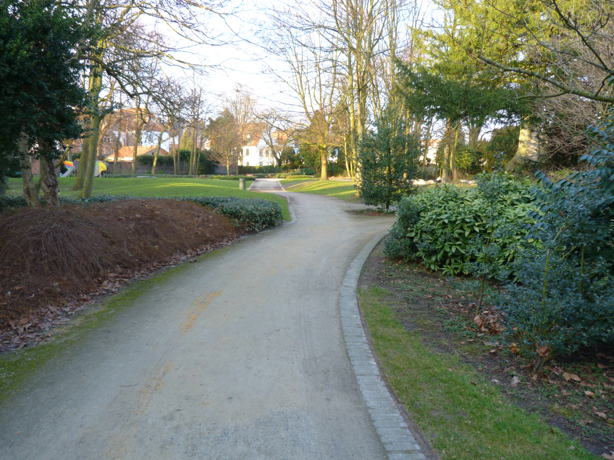 Sebrechtspark, Bruges